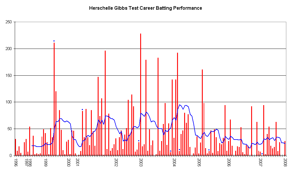 This graph details the Test Match performance of Herschelle Gibbs. It was created by Raven4x4x. The red bars indicate the player's test match innings, while the blue line shows the average of the ten most recent innings at that point. Note that this average cannot be calculated for the first nine innings. The blue dots indicate innings in which Gibbs finished not-out. This graph was generated with Microsoft Excel 2002, using data from Cricinfo [1] and Howstat [2]. The information in this chart is current as of 28 January 2008.